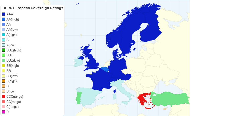 This map shows, in graphical form, sovereign ratings assigned by DBRS as of Nov. 20, 2013.